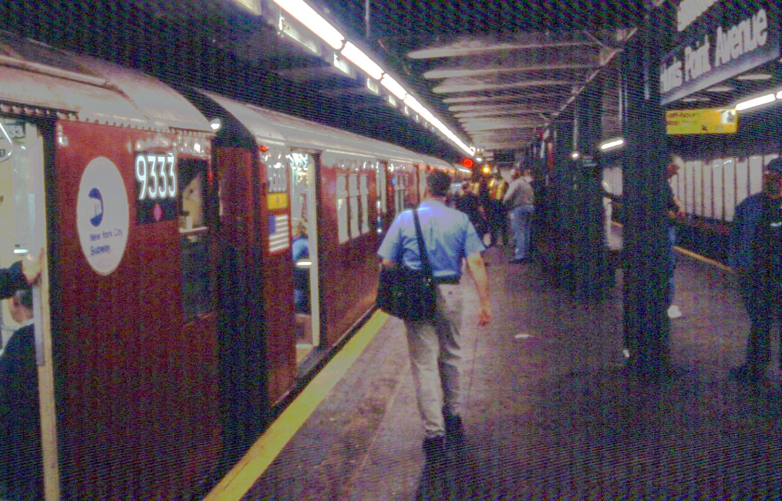 MTA cars 9333 (R33 World's Fair) and 9533 (R36 Main Line) are visible on the platform of the IRT Pelham Line stop at Hunts Point Avenue, on May 26, 2002. The last R33 and R36 cars were retired in 2003.